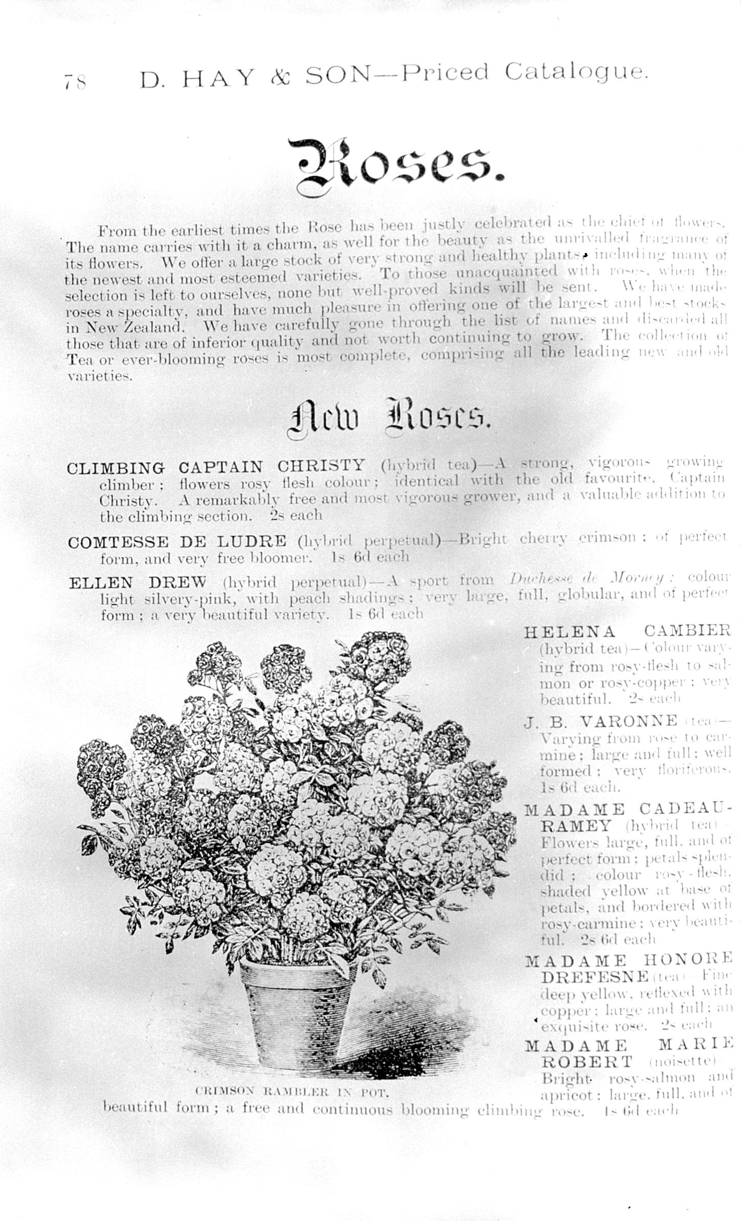 Shows a list of new roses available, and an engraving of a flowering rambler rose in a flowerpot. Quantity: 1 b&w photo-mechanical print(s) on page of sales catalogue.. Physical Description: Letterpress, 214 x 140 mm. Provenance: Acquired in 1980. D Hay & Son, Nurserymen :Roses. New roses. Crimson rambler in pot. [Catalogue page 77. 1899].. [Ephemera and horticulture sales catalogues issued by New Zealand plant nurseries, 1870-1899].. Ref: Eph-A-HORTICULTURE-1899-01-078. Alexander Turnbull Library, Wellington, New Zealand.